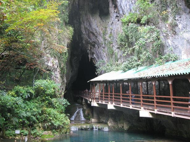 Akiyoshi Cave. Cave in Yamaduchi, Japan. Akiyoshidai.